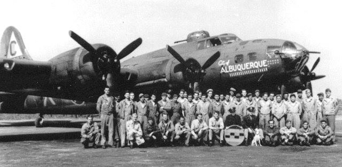 Aircrew and squadron support personnel (including the mascot dog) pose in front of Boeing B-17F Flying Fortress 42-5392 "Stric Nine/City of Albuquerque" at Molesworth England. Aircraft was assigned to the 427th Bombardment Squadron, 303rd Bombardment Group. Note the aircraft shows 20 combat missions completed with 11 enemy aircraft shot down on its fuselage. This aircraft was lost Aug 19, 1943 attacking the Gilze-Rijen and Flushing Airfields in Belgium.